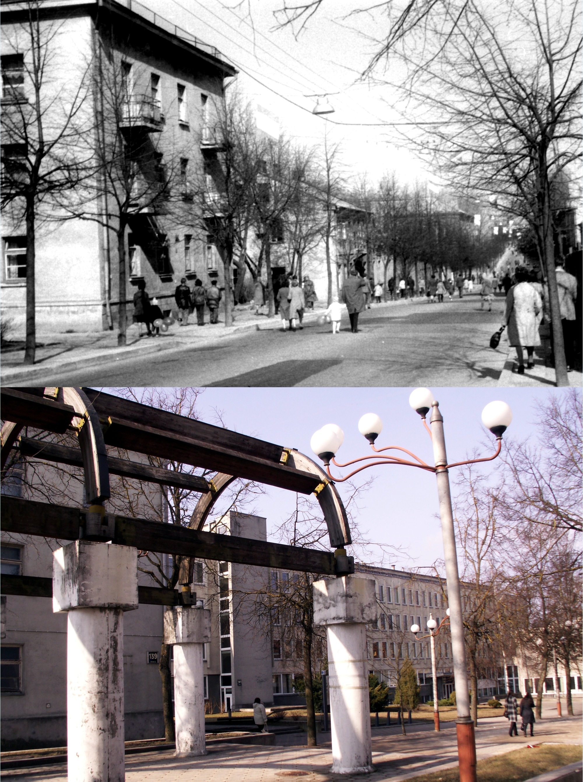 Vilniaus str. in Šiauliai 1978-2010, Lithuania